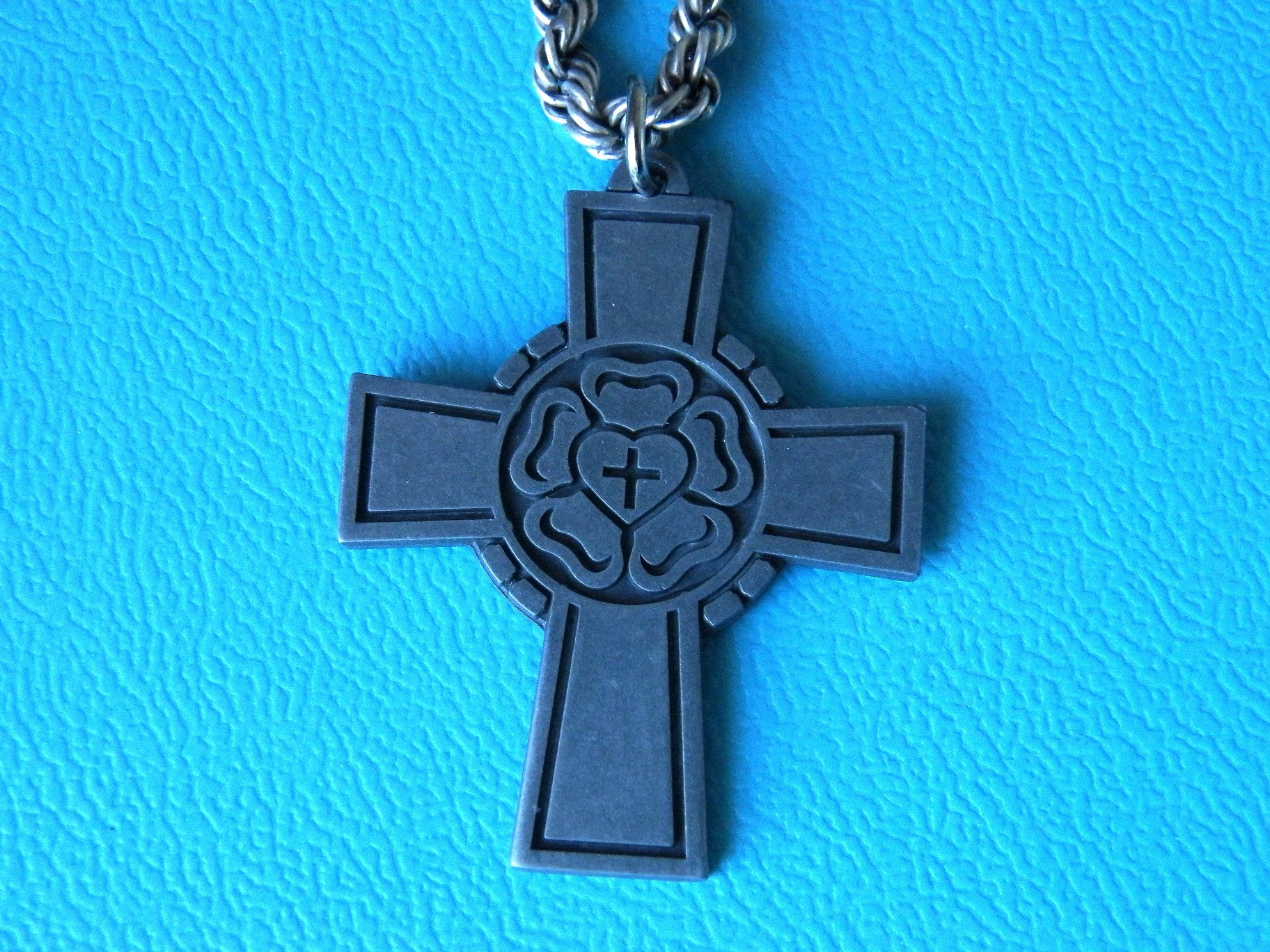 Lutheran Rose Cross, in the middle we can see Martin Luther's seal